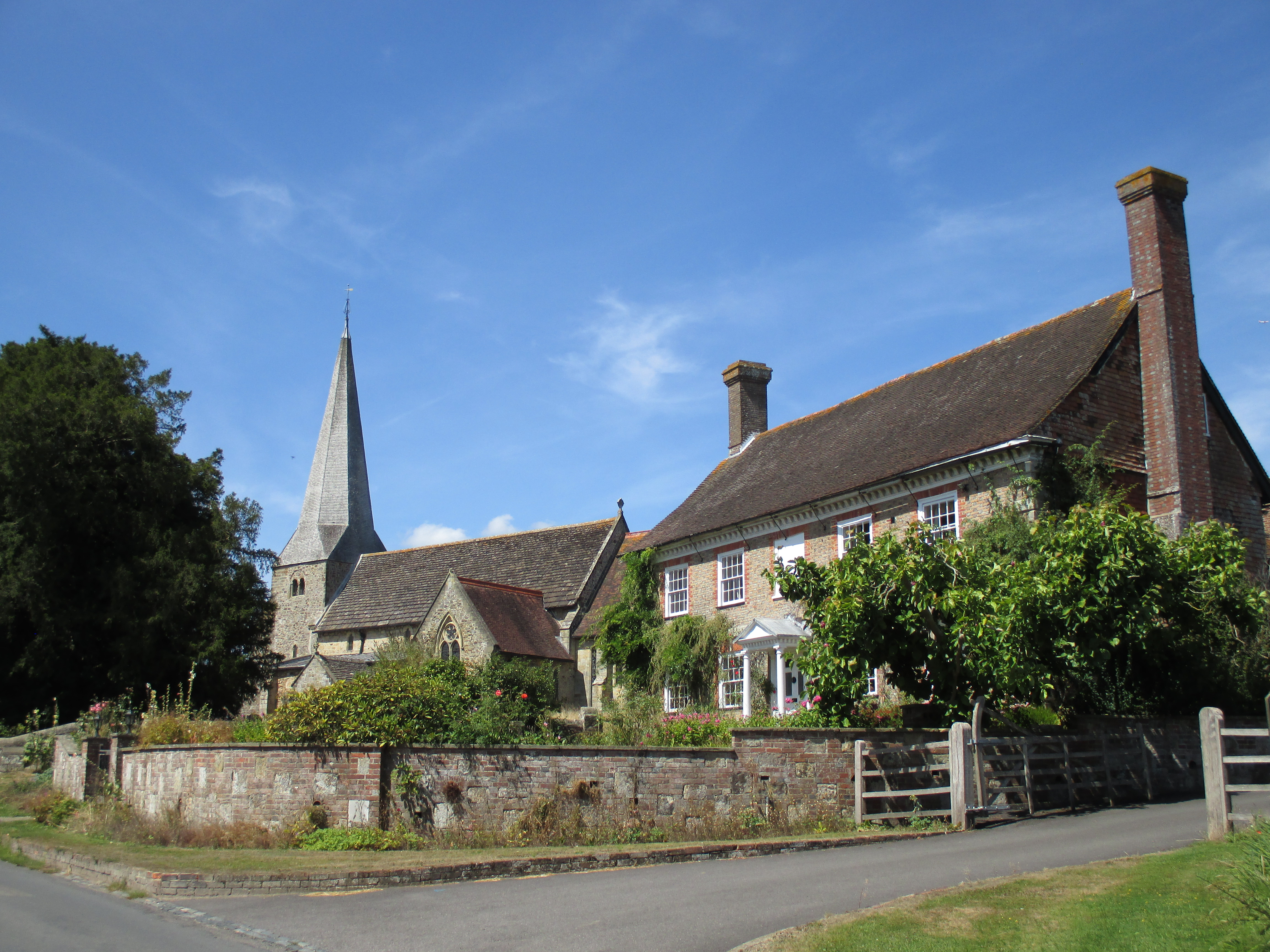 St Andrew and St Mary the Virgin's Church and Church Farm House, Fletching, East Sussex, seen from the south-east.